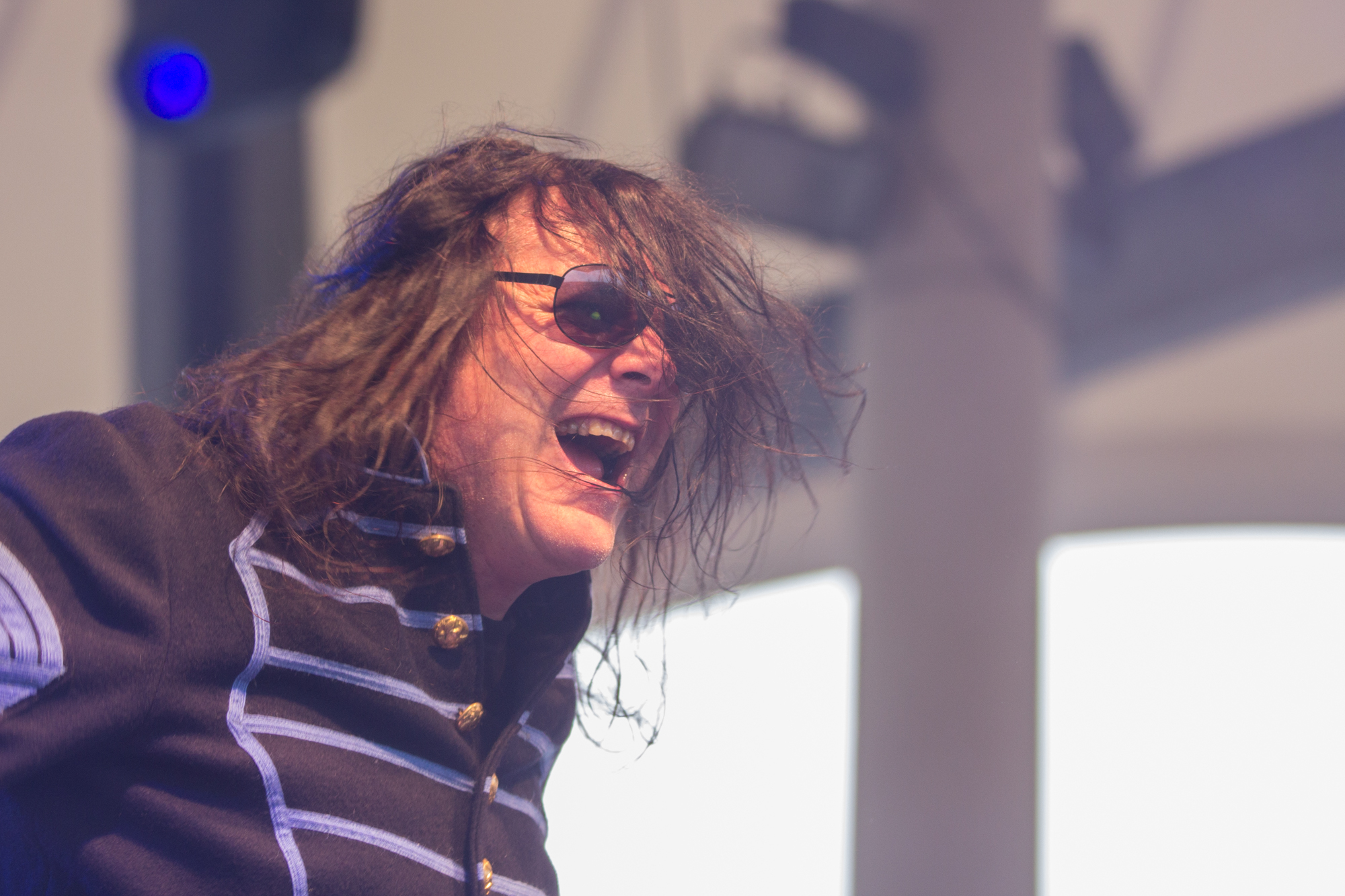 Civil War at Noch ein Bier Fest 2015 (Amphitheater, Gelsenkirchen, North-Rhine-Westphalia, Germany) on 25th July 2015